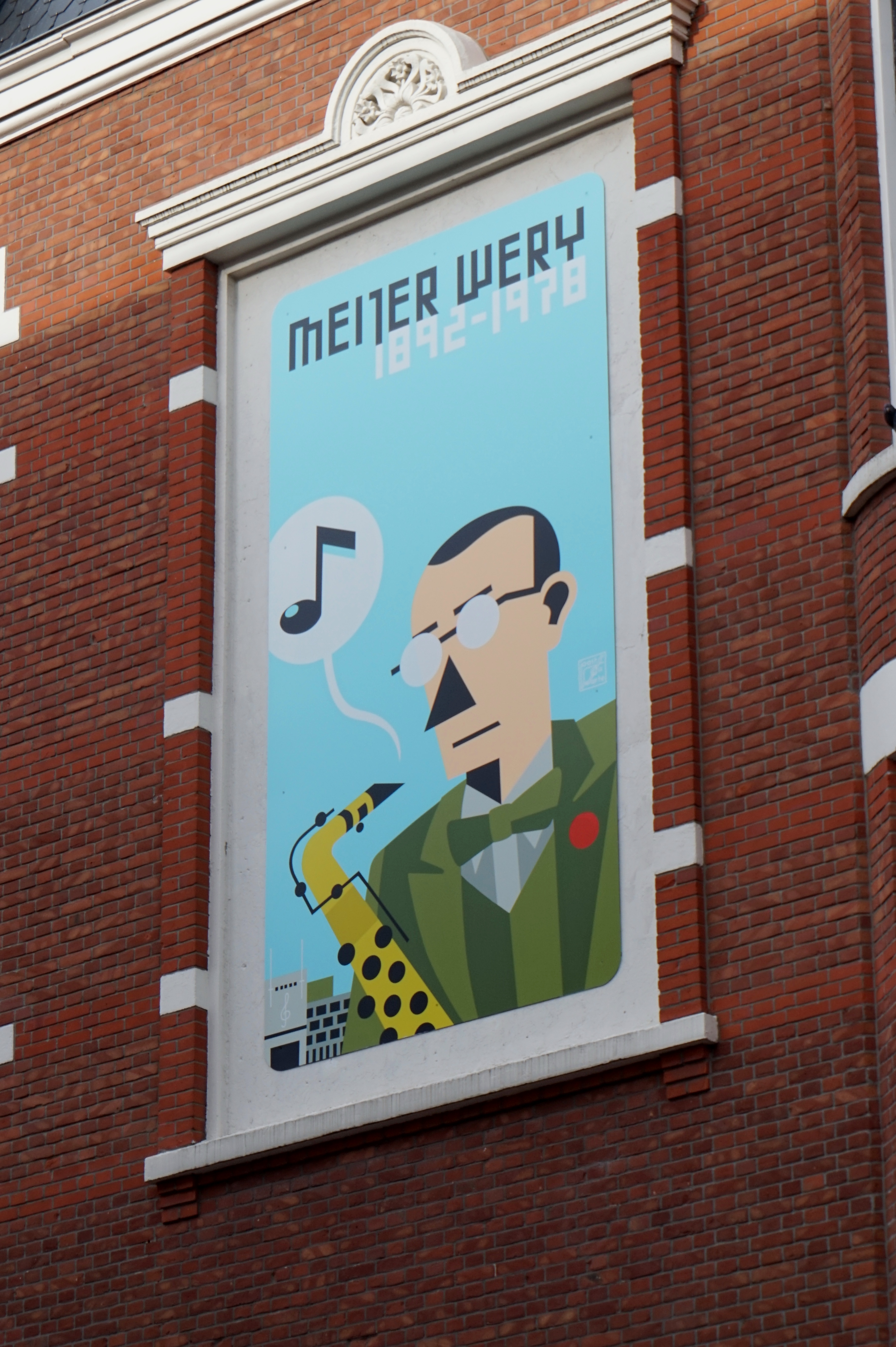 Meijer Wery by Joost Swarte